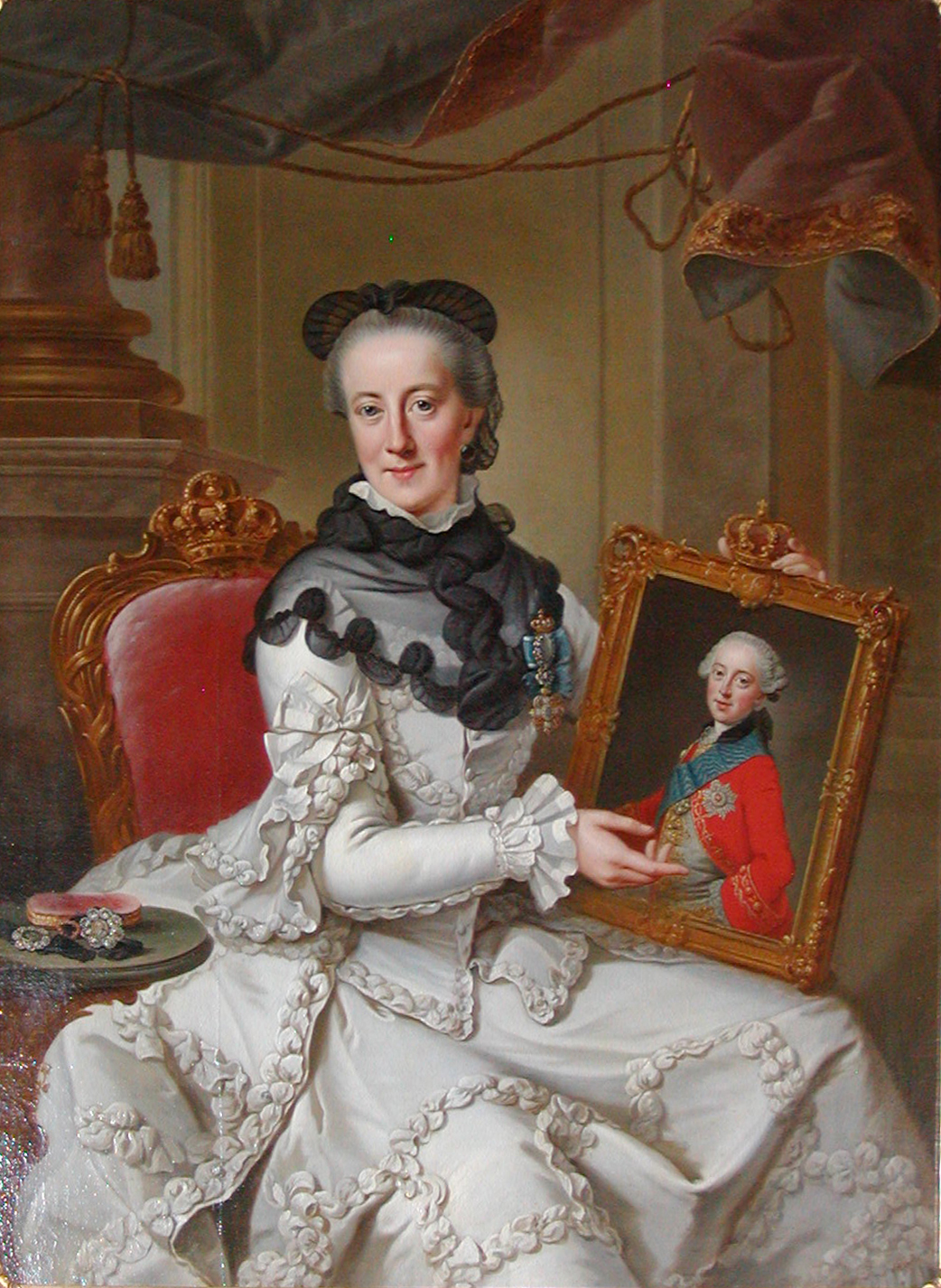 Portrait of Juliana Maria of Brunswick-Wolfenbüttel with a portrait of her son Hereditary Prince Frederick